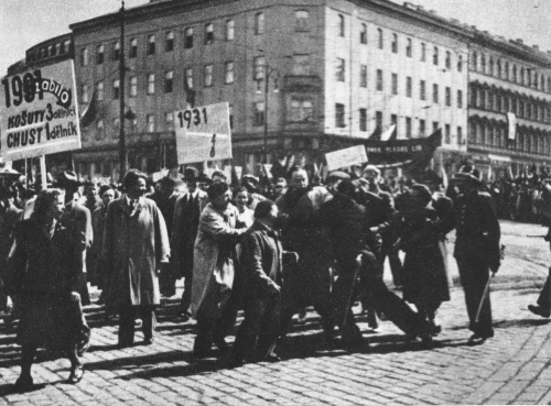 Street demonstrations